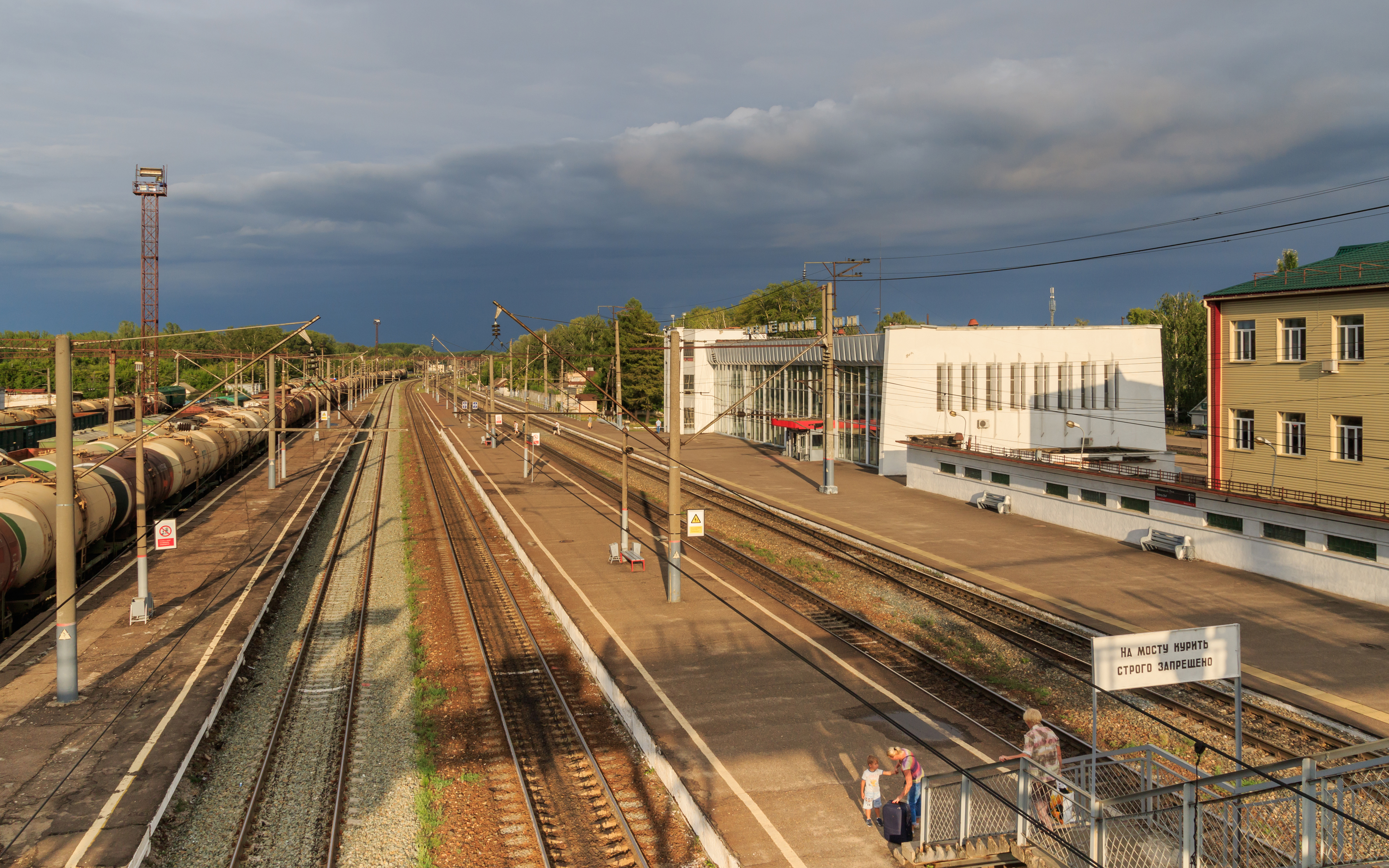 Passenger platforms of Zeleny Dol railway station in Zelenodolsk, Tatarstan, Russia